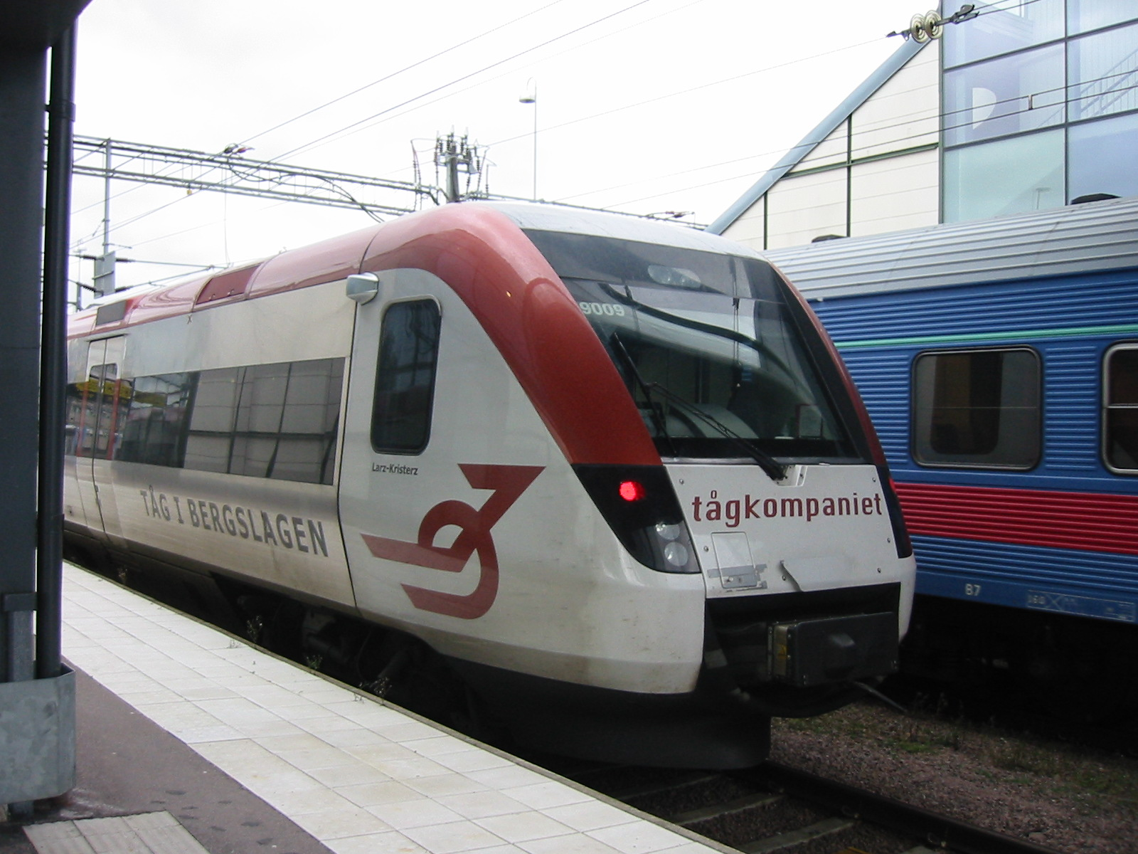 A train set from Tåg i Bergslagen at Västerås railway station. The train set is named Larz-Kristerz.